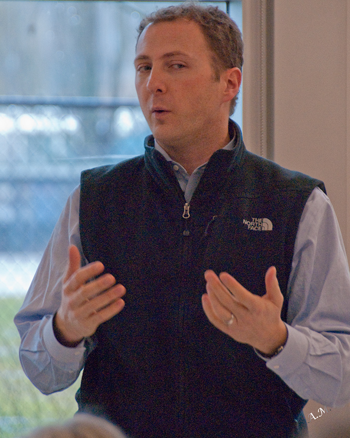 Washington State Senator Scott White in 2011. Photo courtesy of CarlB104, via Flickr.